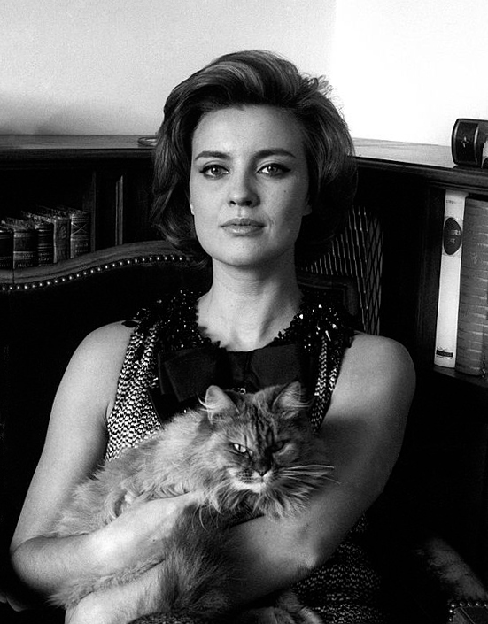 The Tuscan actress Ilaria Occhini. Rome (Italy), 1965.